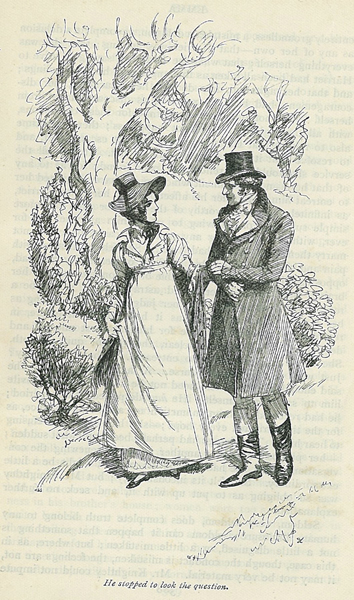 Illustration of 1896 for Macmillan's edition of Emma (Jane Austen's novel) : "He stopped in earnestness to look the question, and the expresion of his eyes overpowered her."